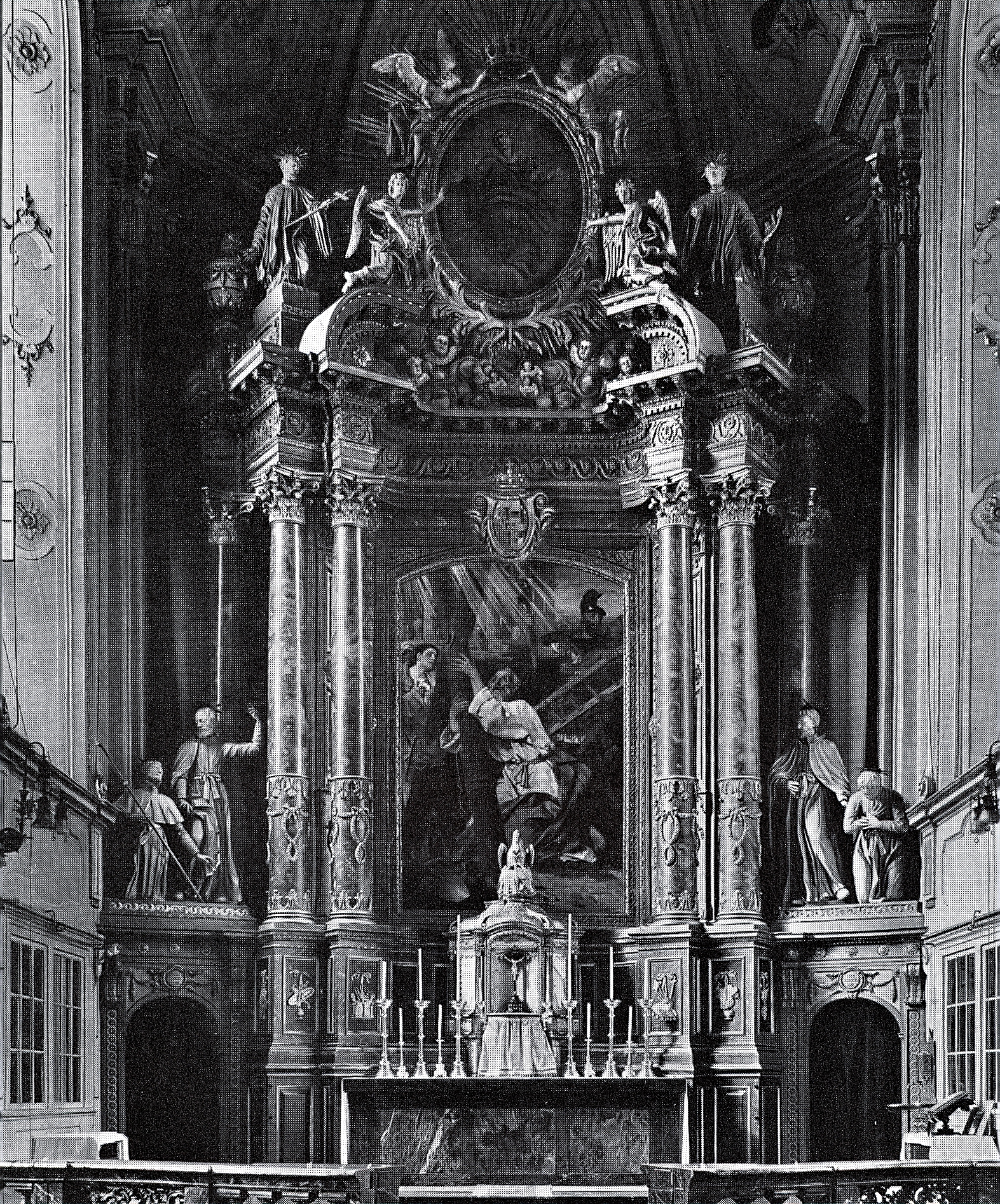 t